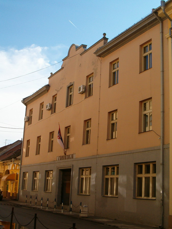 Zrenjanin Grammar School building